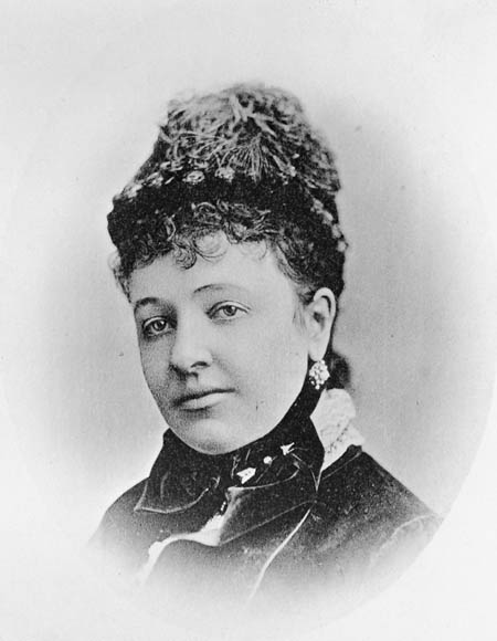 Portrait of the soprano Emma Albani (1847-1930). From Library and Archives Canada, Robert James Manion fonds.